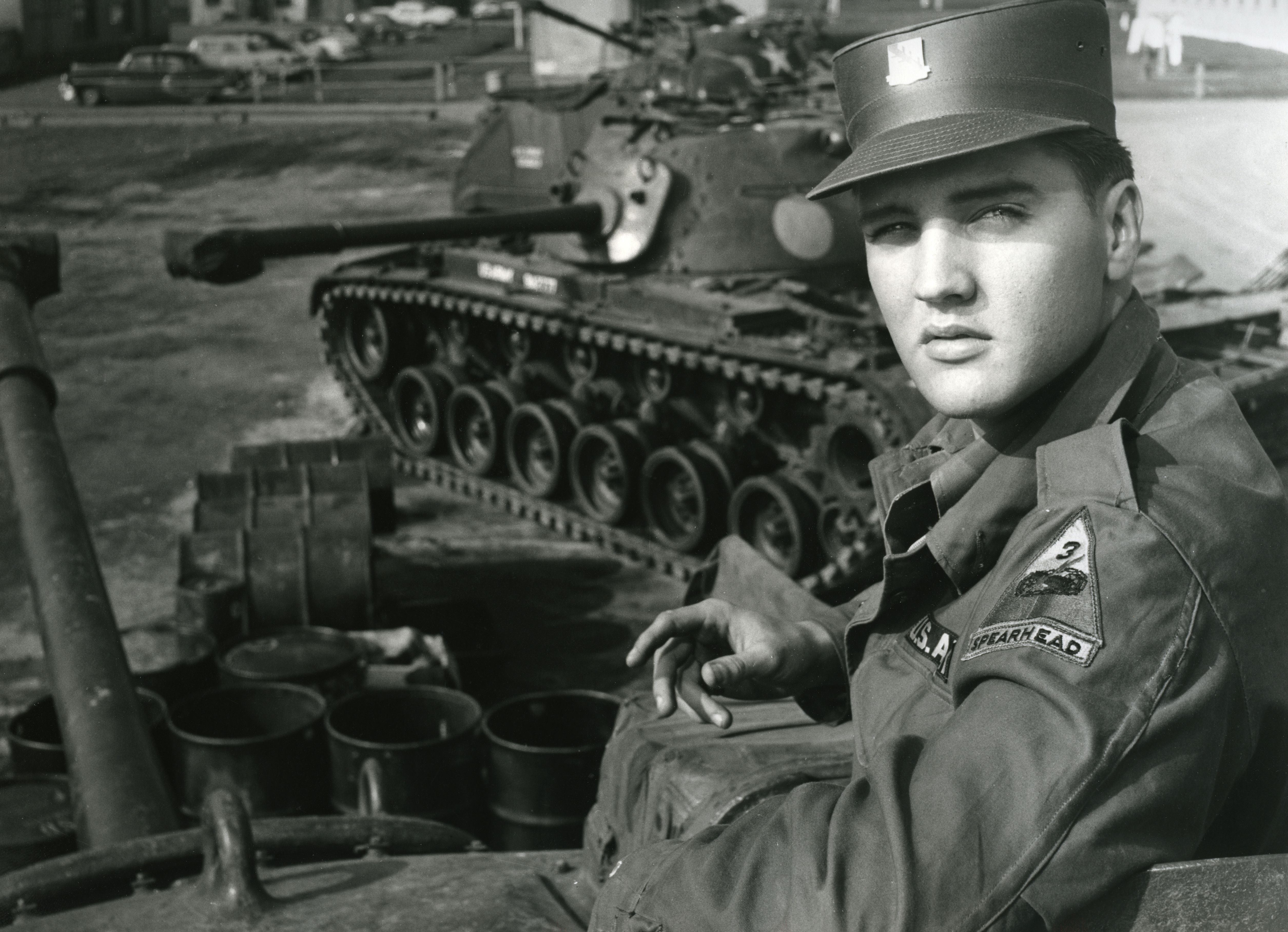 Elvis Presley poses for the camera during his military service at a US base in Germany.